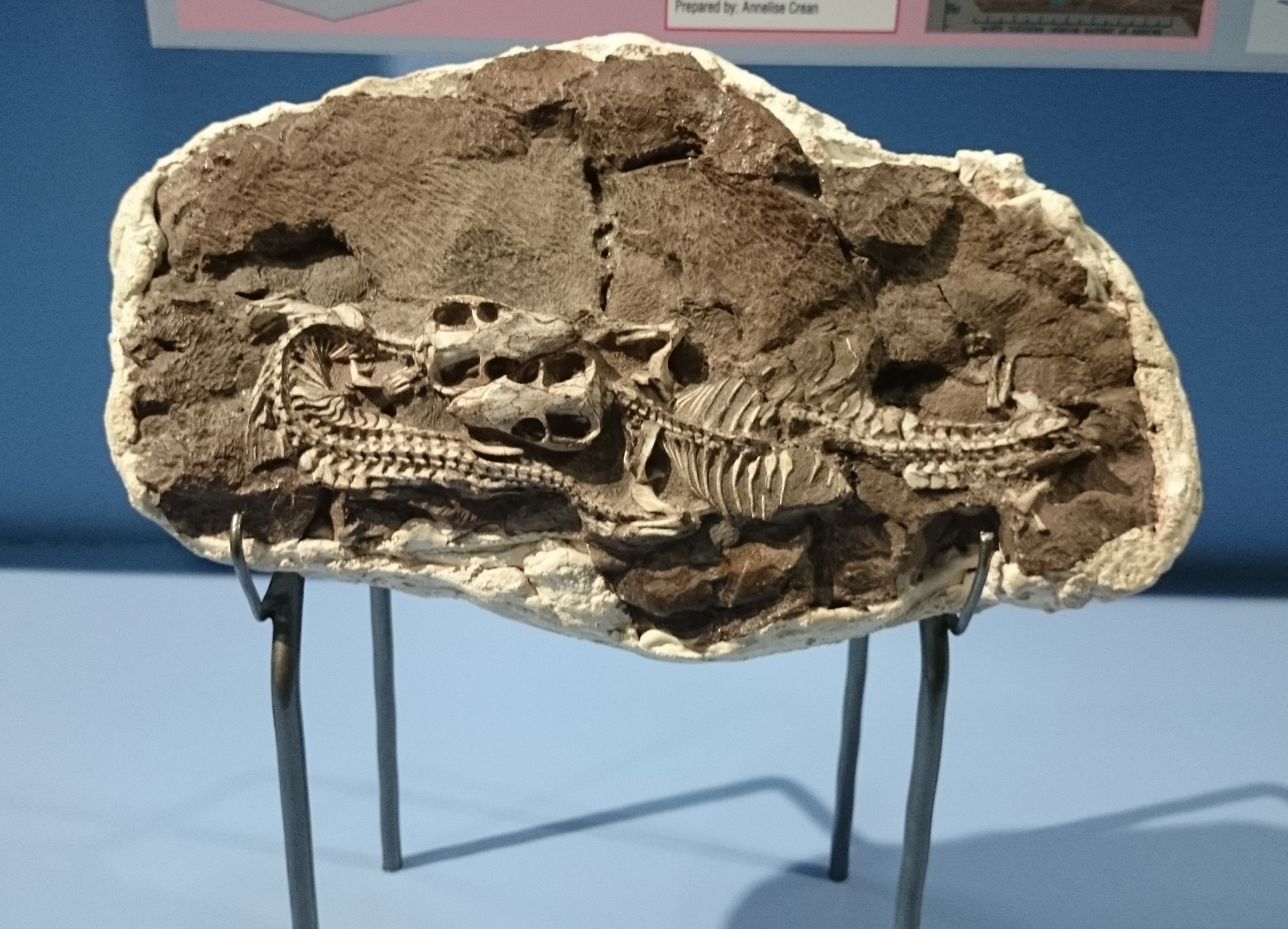 Thrinaxodon fossil